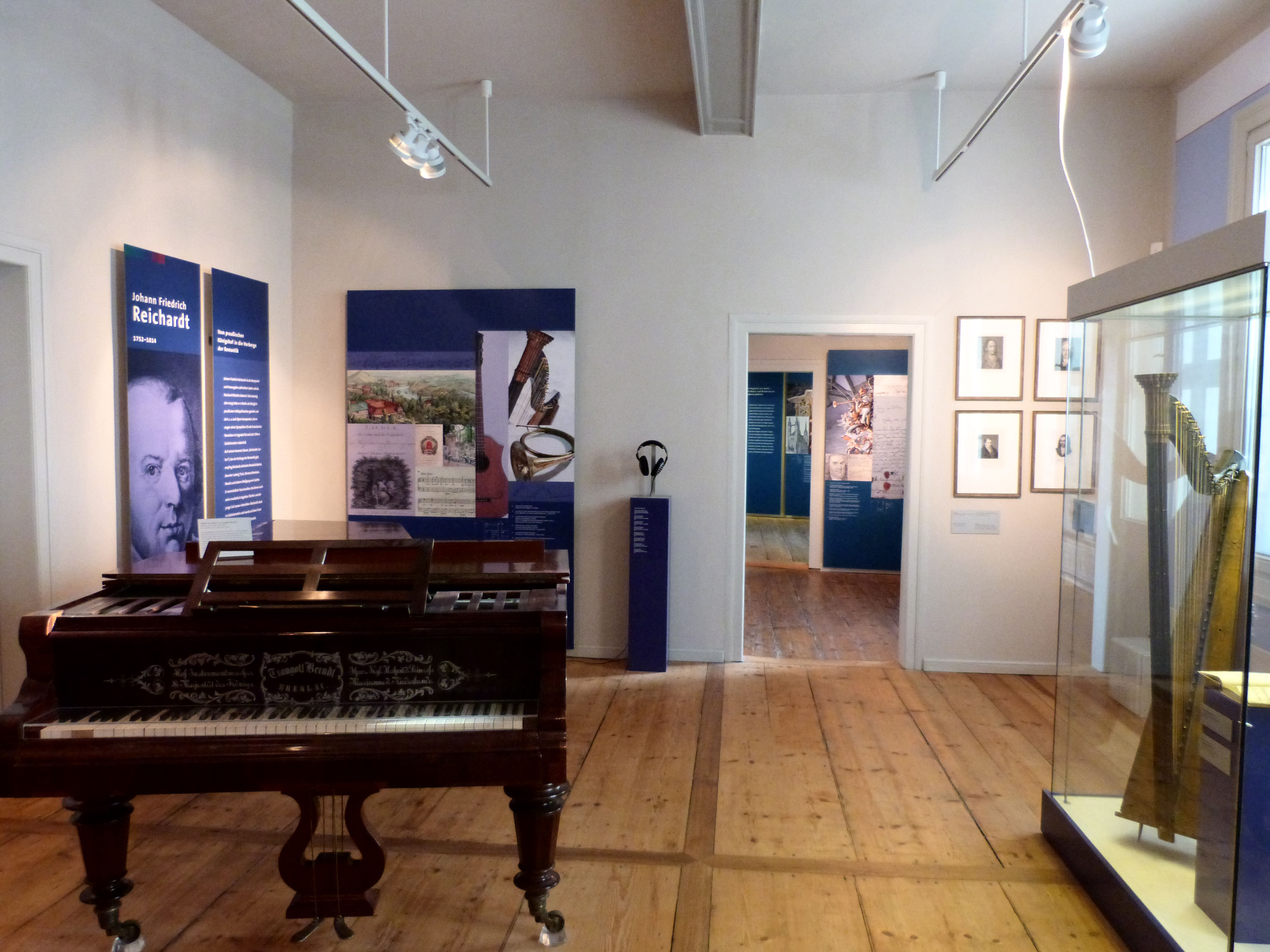 Wilhelm Friedemann Bach House in Halle (Saale), exhibition rooms